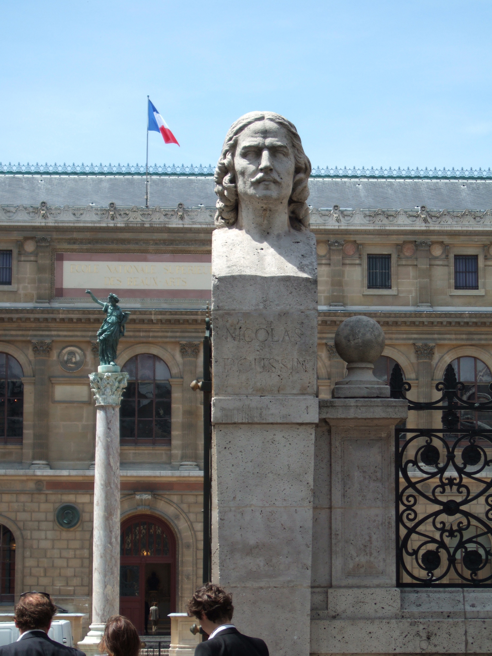 Ecole nationale superieure des Beaux-Arts, Paris, Ensba, Nicolas Poussin